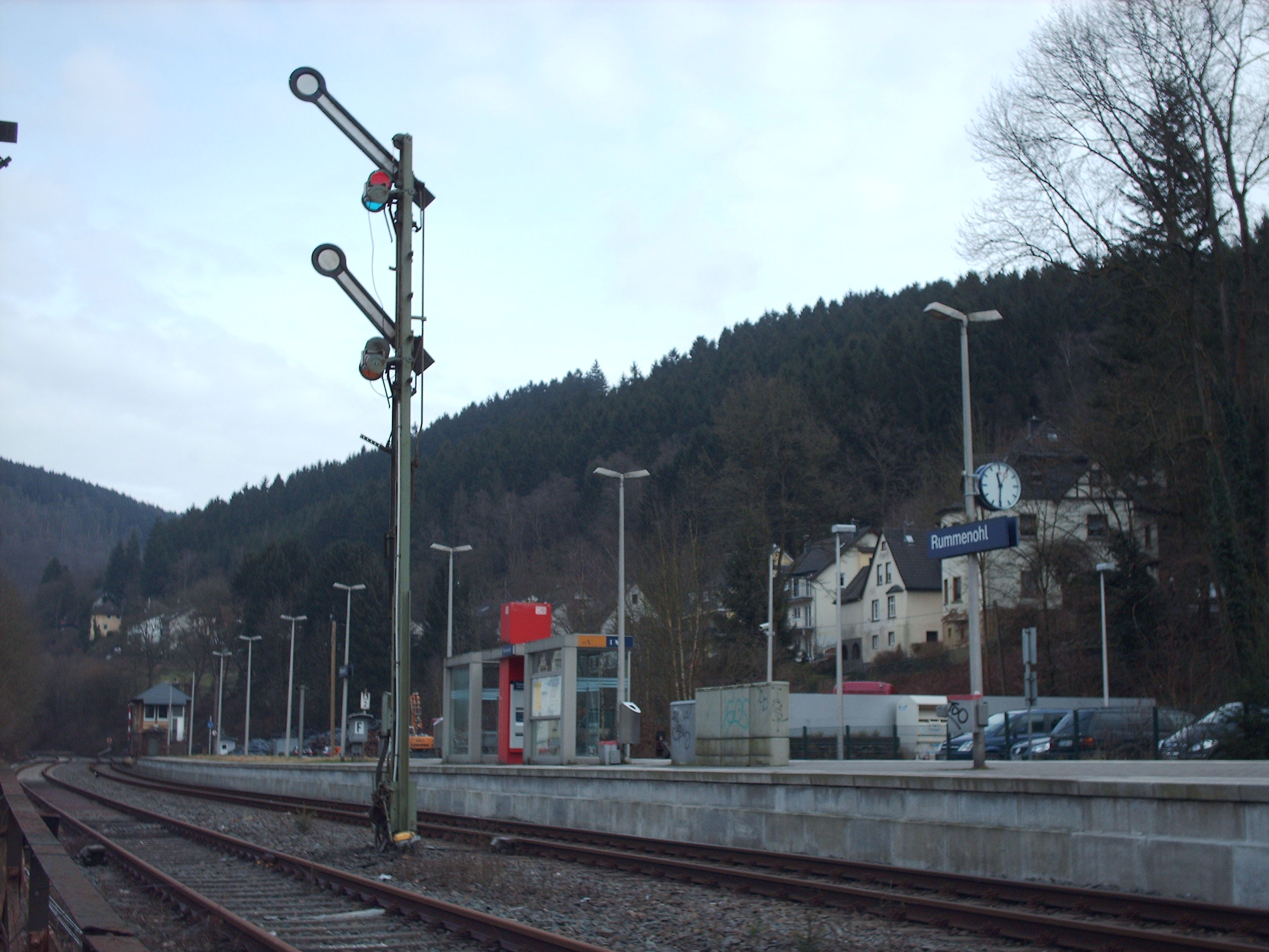 Rummenohl station, Hagen, Germany check usage